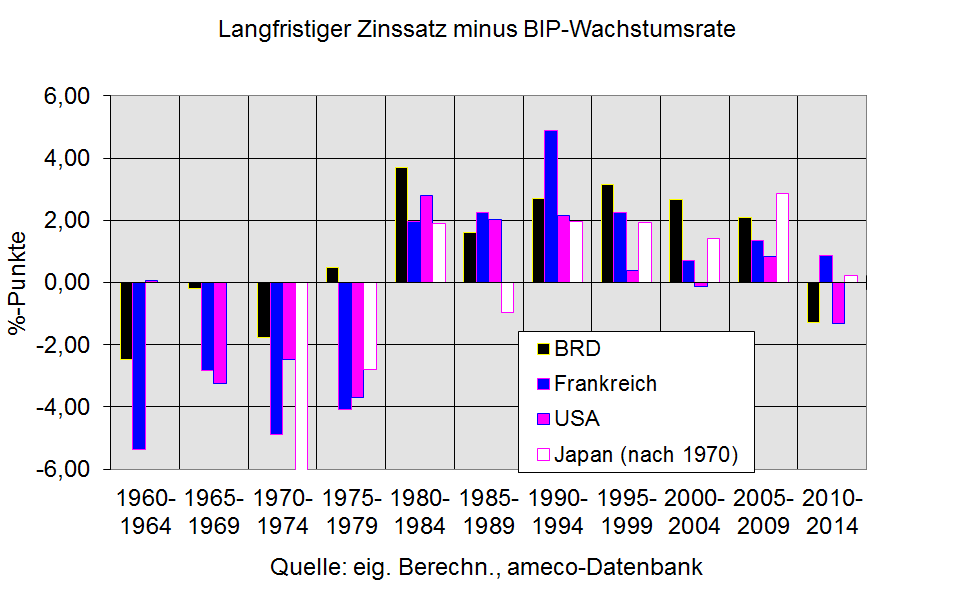 German graphic, difference long term interest rates vs. growth rates Gross Domestic Product - countries: BRD/FRG, France, USA, Japan